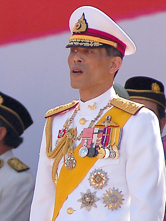 Maha Vajiralongkorn at the 50th Mederka National Day celebrations